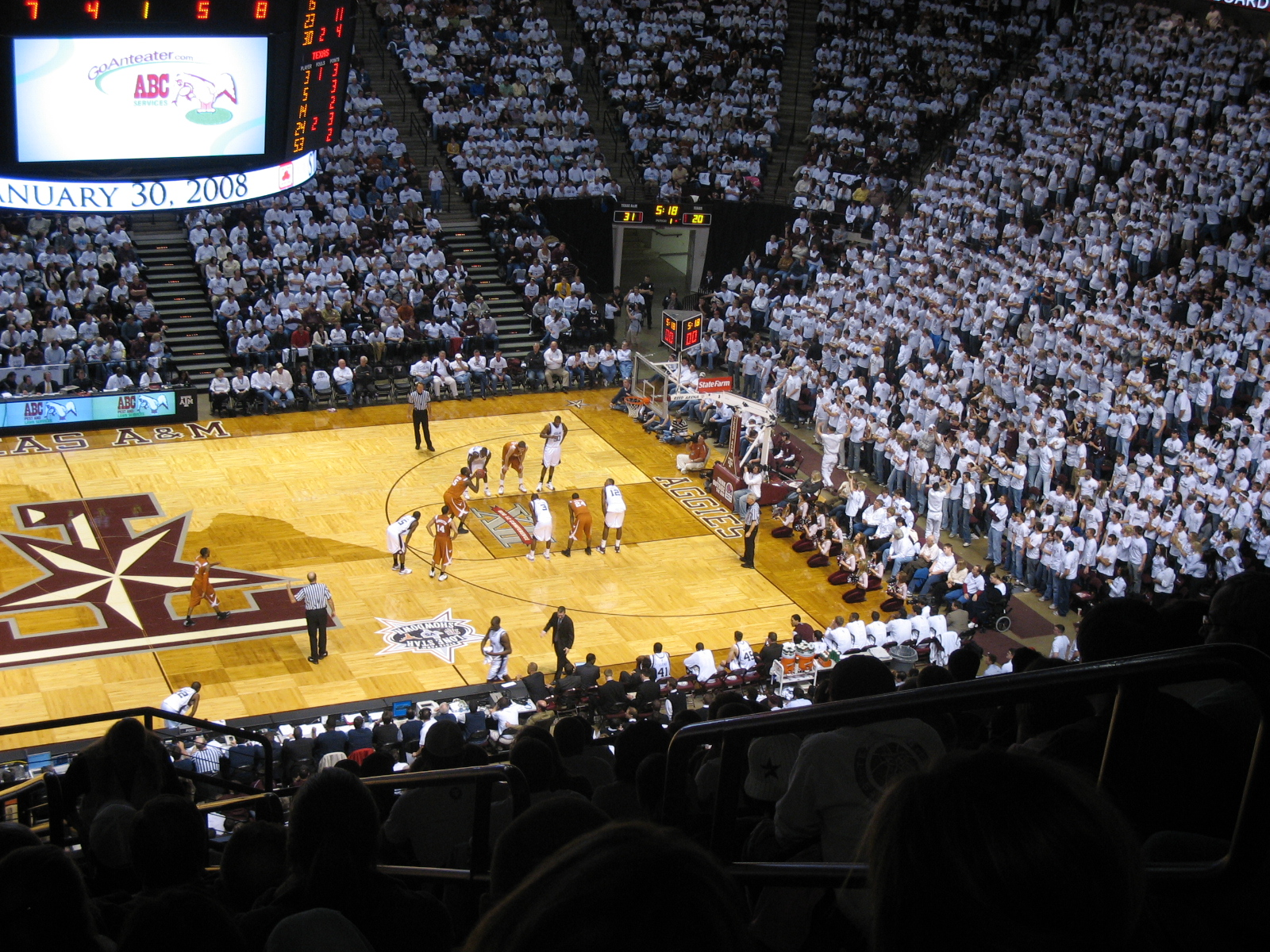 Damion James about to shoot a free throw.